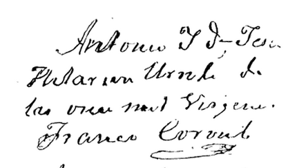 Signature of Antonio Ignacio de Jesus Hilarion Ursula de las once mil Virgenes Franco Coronel